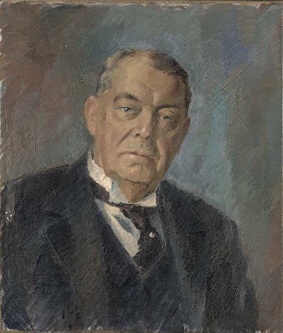 Unknown